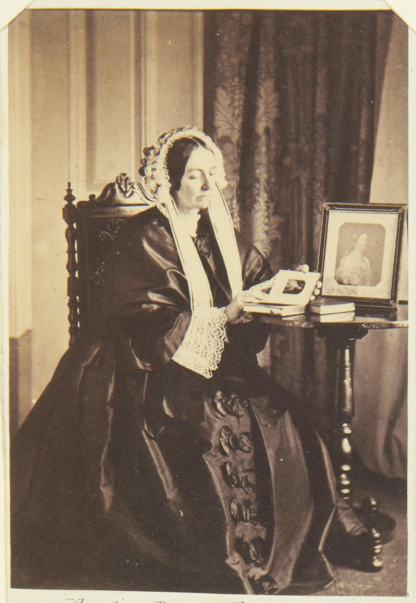 Amélia, Empress of Brazil in her final years